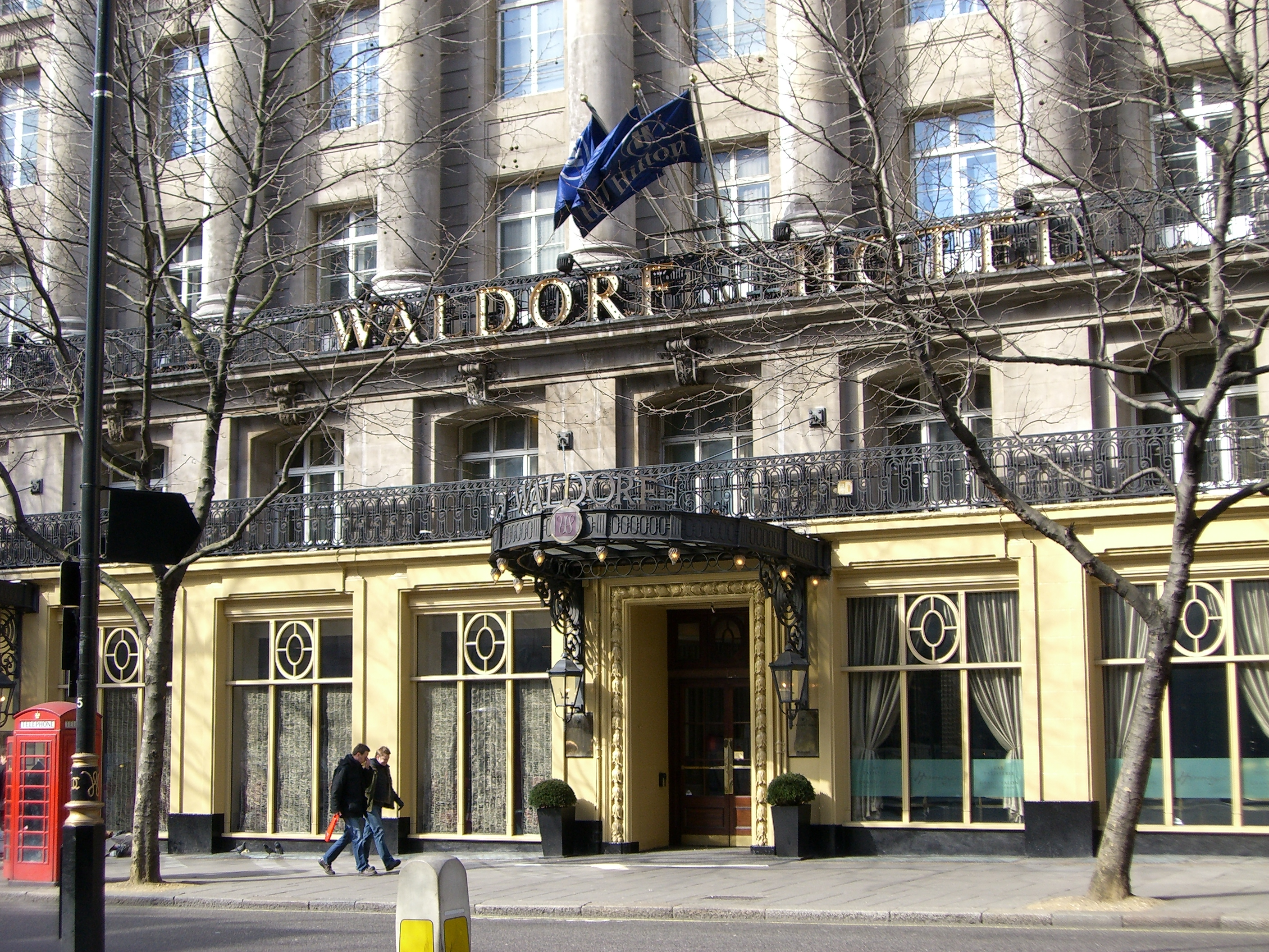 Waldorf Hilton, 22 Aldwych, London WC2B 4DD Photo taken by User:Edward on 19 March 2006 with a Casio EX-S600.